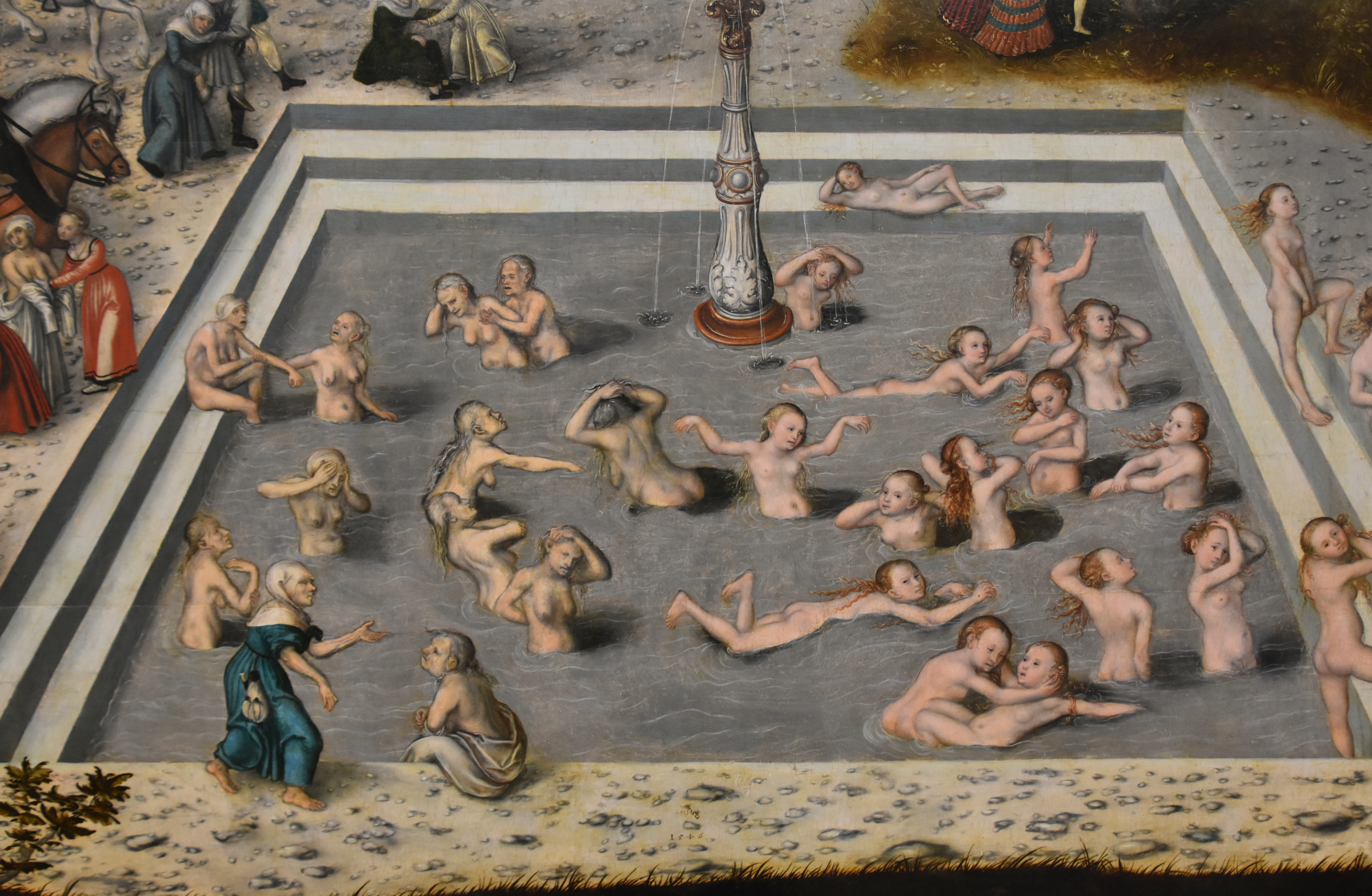 Lucas Cranach the Elder, the Fountain of Youth, 1546, Gemaldegalerie, Berlin (1)